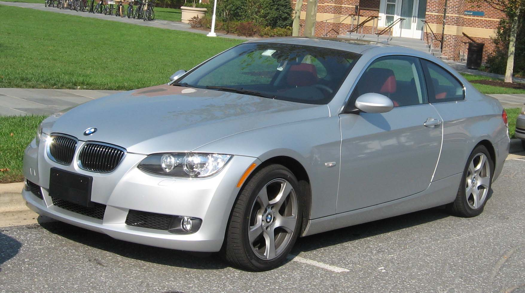 2007-2008 BMW 328i photographed in College Park, Maryland, USA.